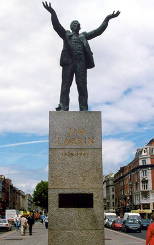 Statue of the Irish Labour leader James "Big Jim" Larkin, located on O'Connell Street in Dublin, Ireland. Photo taken by a wikipedia contributor.